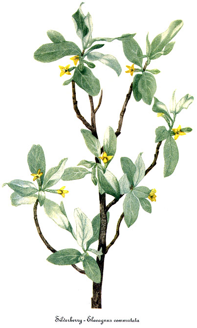 Watercolor painting of Elaeagnus_commutata.